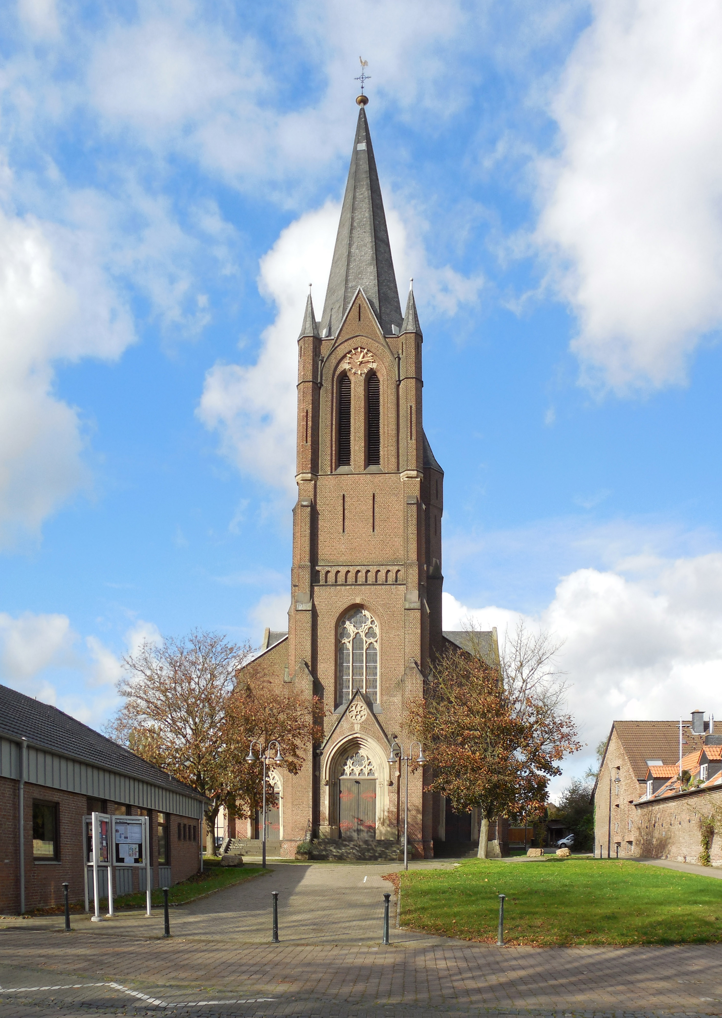 St. Martinus, Parish Church of Stommeln